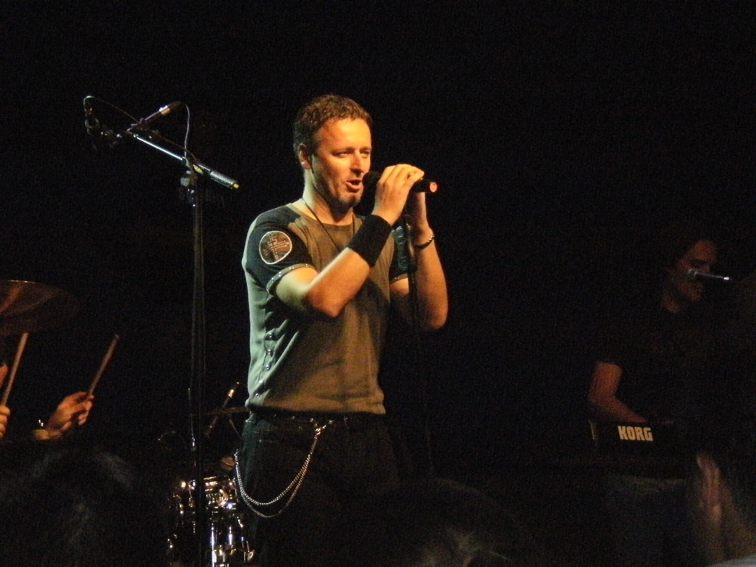 Marko Perković Thompson on concert in Korčula